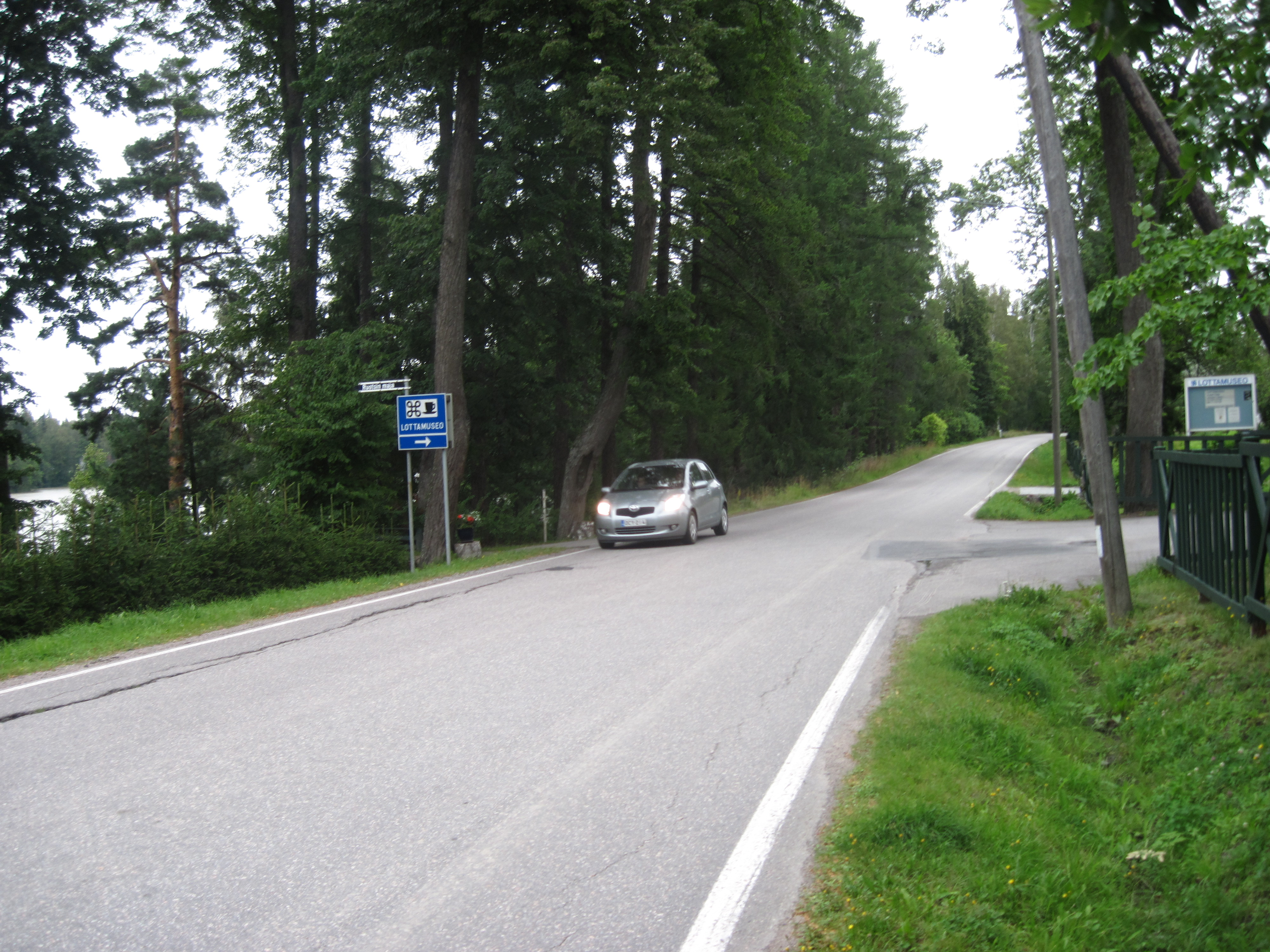 Rantatie (Strandway, historic road), Tuusula, Finland